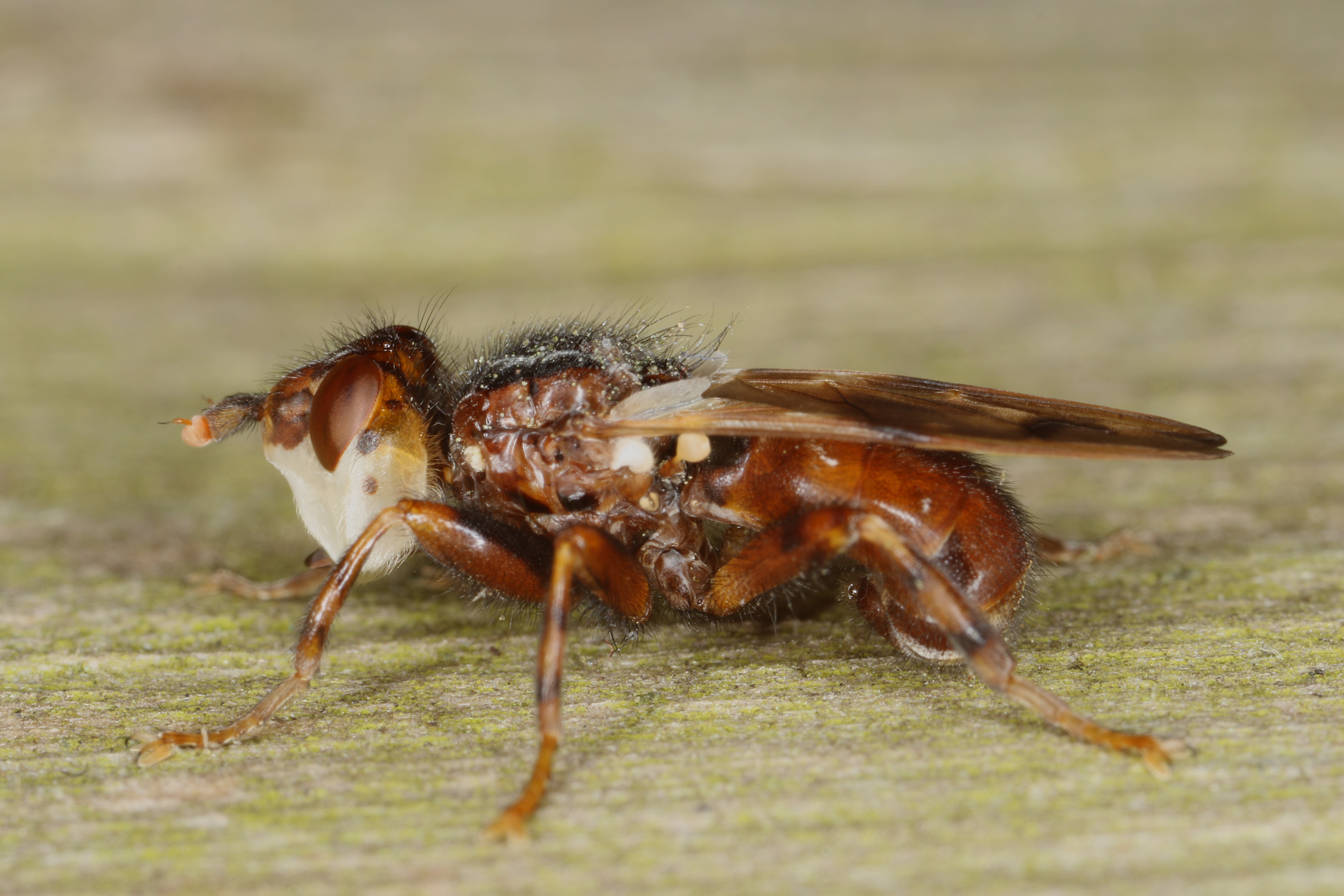 Myopa buccata (Linnaeus, 1758), Søborg, Denmark, 31 May 2016